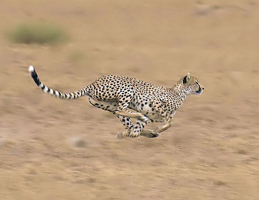 Cheetah sprinting in pursuit of Thompson's gazelle in Serengetti National Park, Tanzania